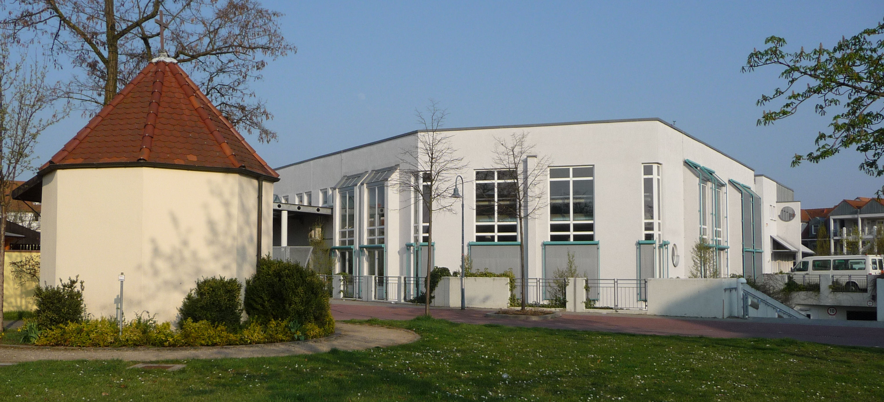 chapel in Ludwigshafen, Germany